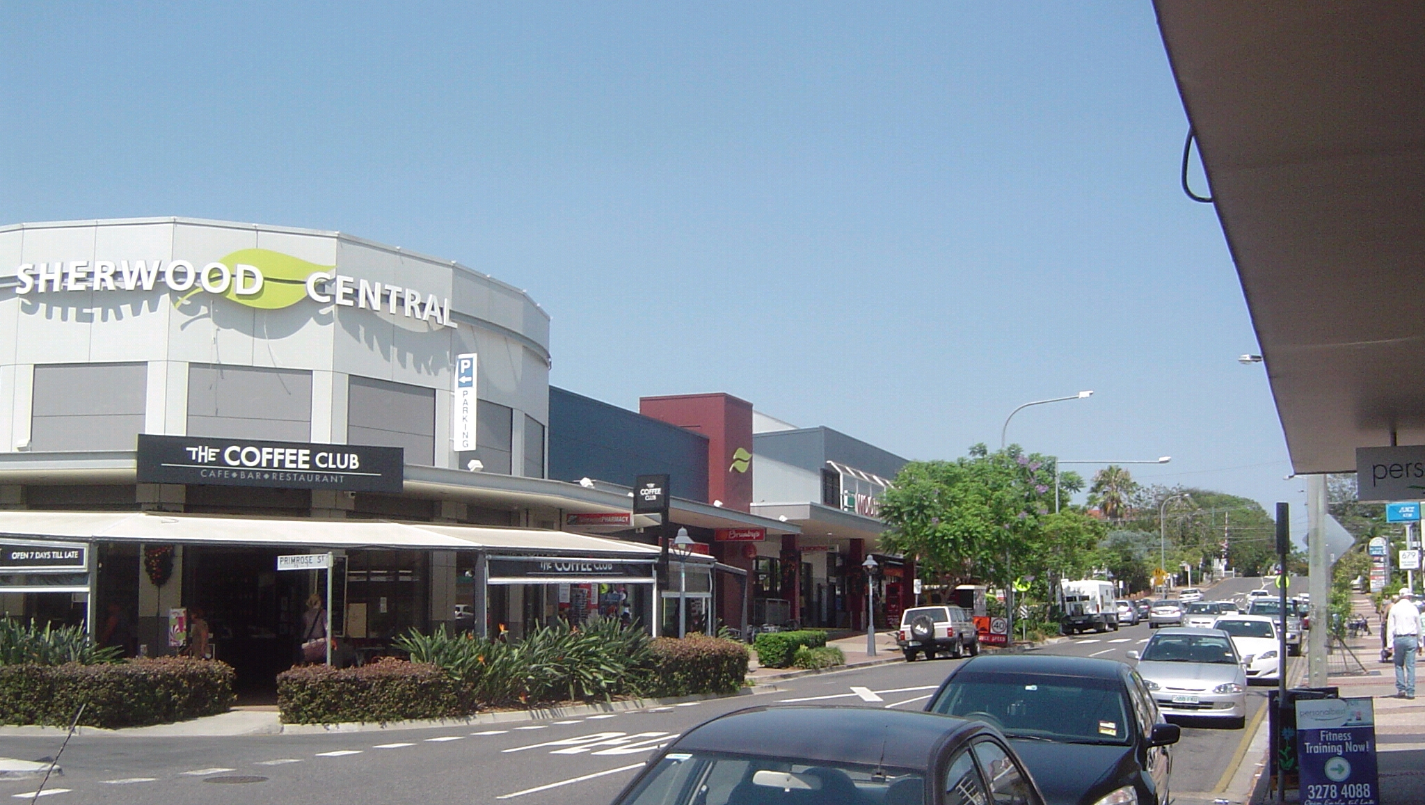 Photograph of Sherwood Road and shops in Sherwood, Brisbane, Queensland, Australia looking west.